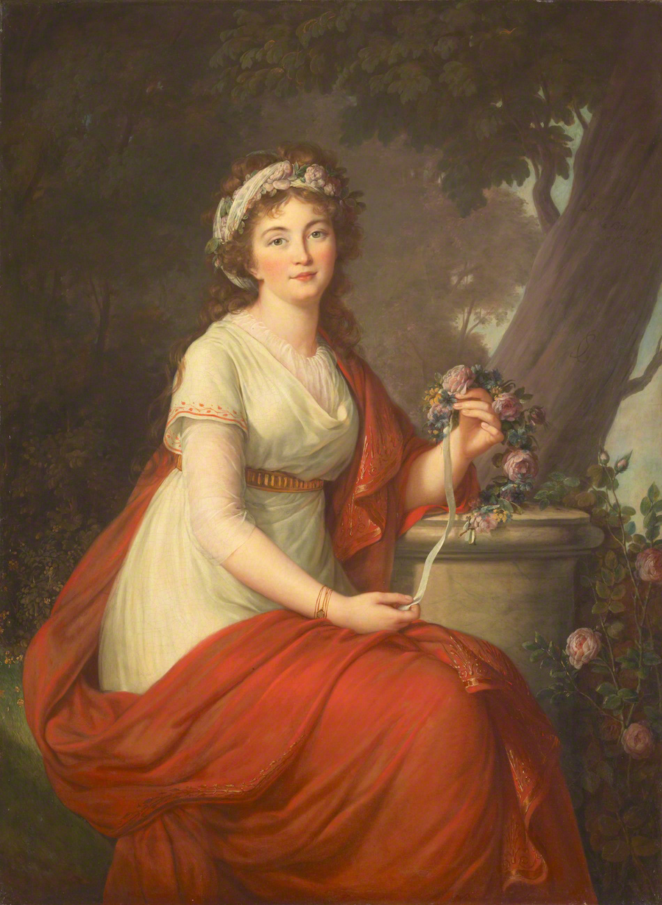 Princess Youssoupoff - 1797 Oil on canvas, 141 x 104.1 cm, 55.5 x 41 in Tokyo Fuji Art Museum Princess Tatiana Vassilievna Youssoupov, née Engelhardt, Mme Potemkine in her first marriage. Lived 1769-1841, a sister of Varvara Galitzin (pictured above this image) and Catherine Skavronsky (and on page 37), whom vlb also painted. Signed and dated on the tree trunk "L. E. Vigée, Le Brun 1797, a St Petersbourg". Reference Kimbell Exhibition Catalog Number 44 for more details.